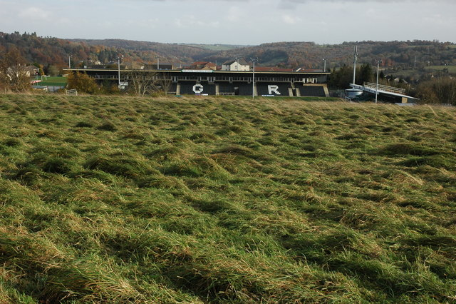 Forest Green Rovers Football Ground Forest Green Rovers moved to this new ground, named the New Lawn at the start of the 2006/07 season. The club moved just a short distance from their original ground which was used for a housing development.